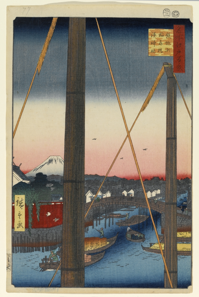 Part of the series One Hundred Famous Views of Edo, no. 077, part 3: Autumn.